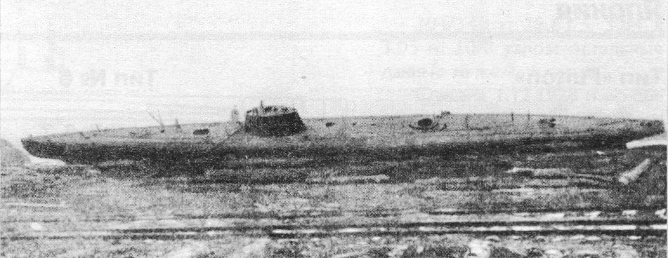 Russian submarine "Saint George" out of service at Dvina river coast